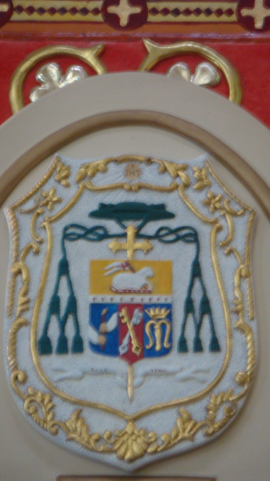 Coat of Don Rifan on the of the Main Church of Campos, RJ, Brazil.